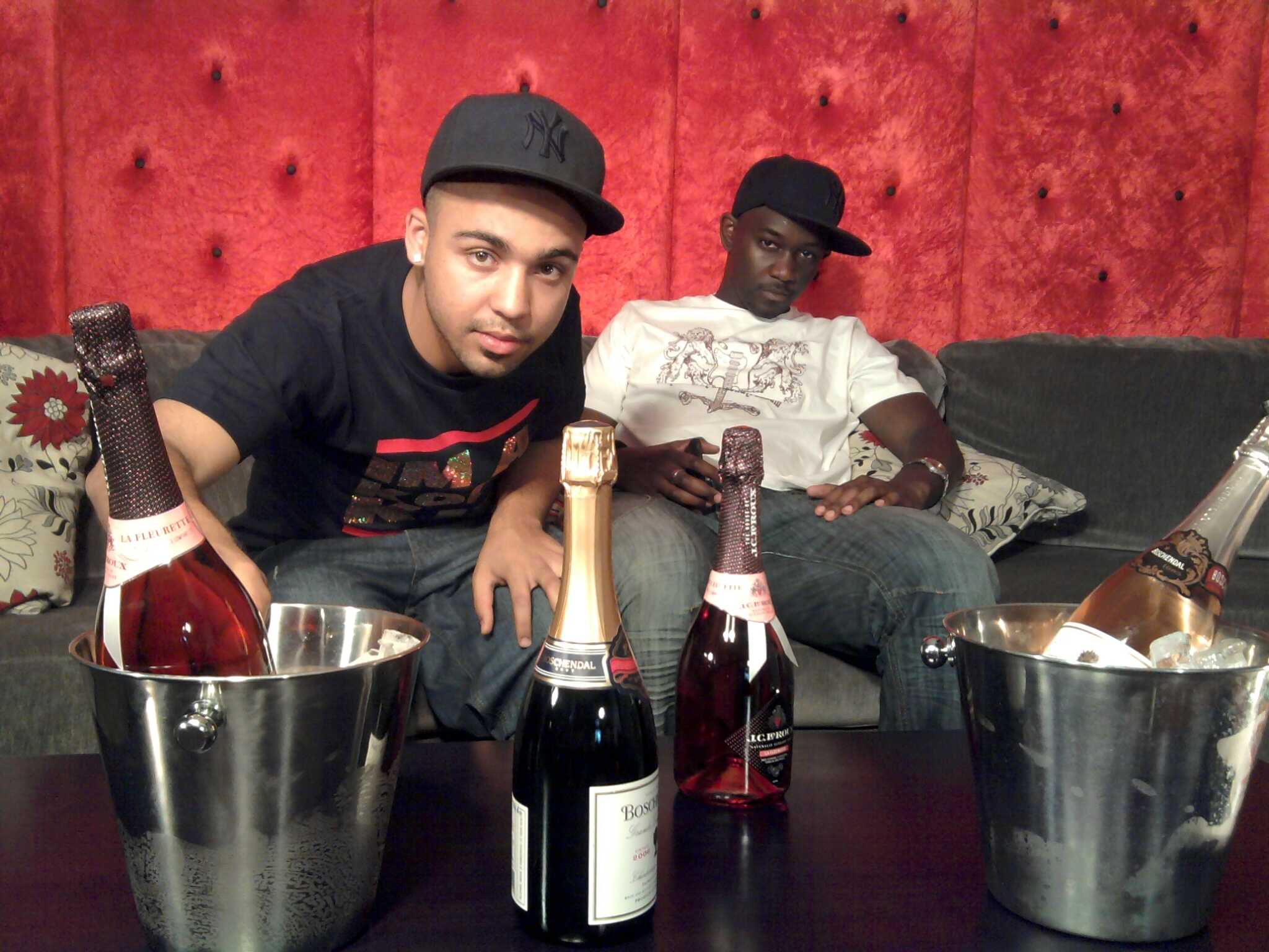 Music video shoots can be exhausting